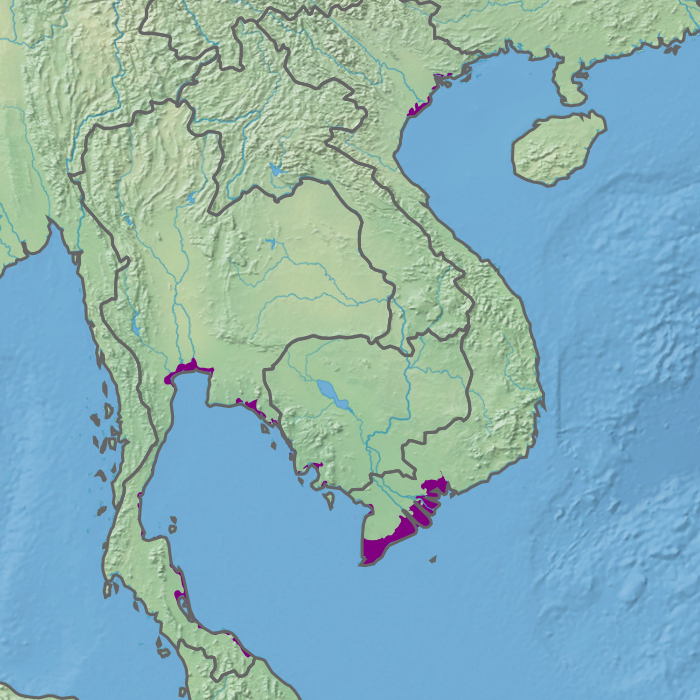 Ecoregion IM1402 - Indochina mangroves (in purple)